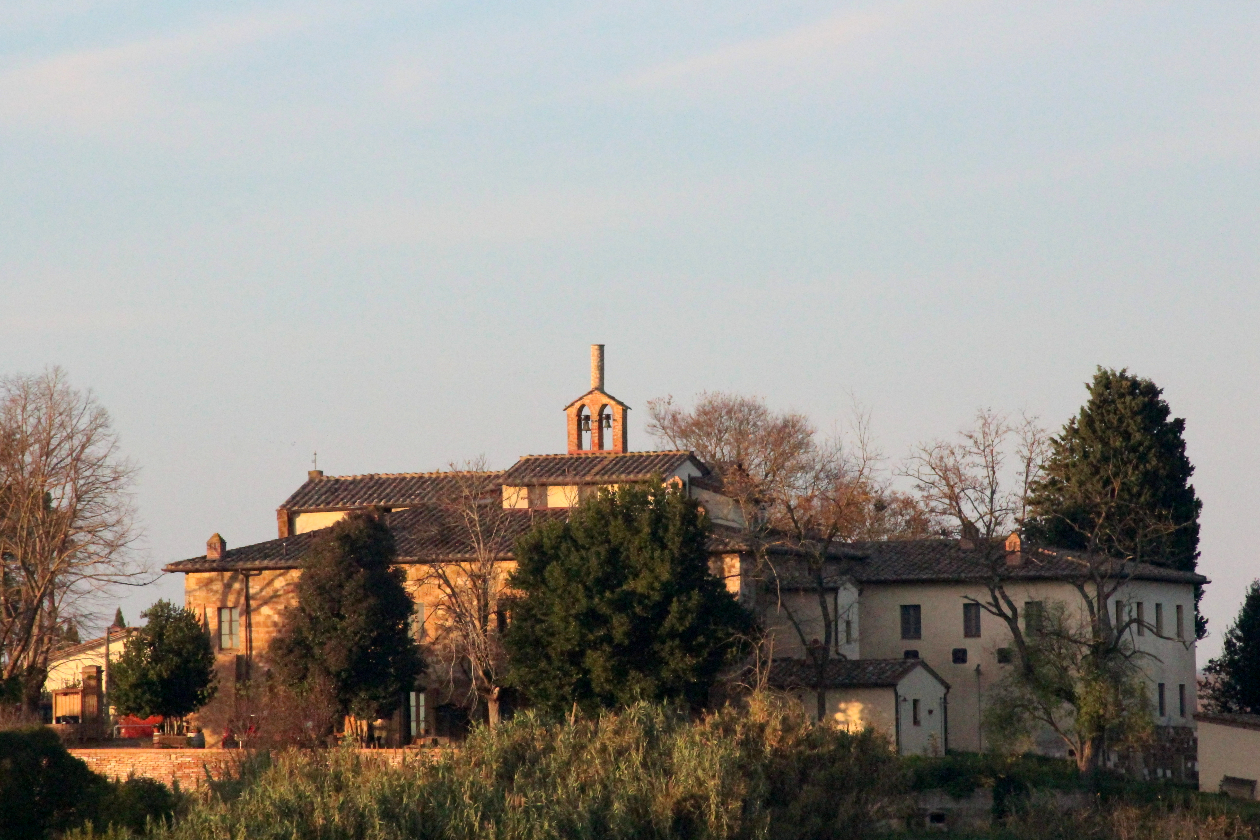 Church Pieve di San Giovanni Battista a Fogliano, in Fogliano, hamlet of Siena, the Tuscany region, Italy.